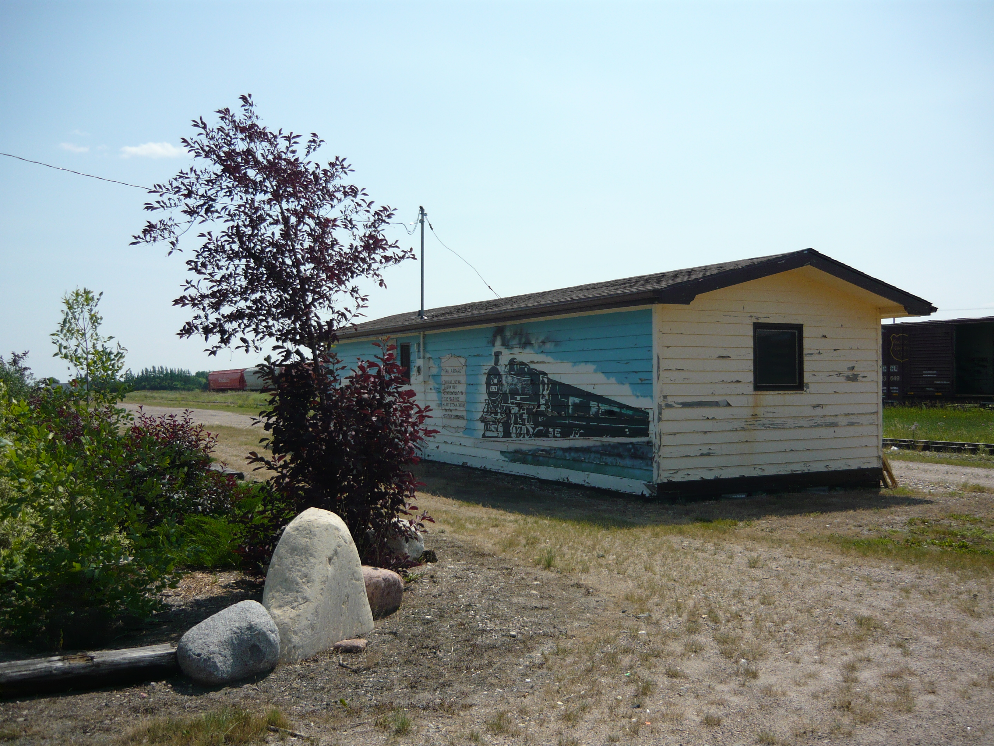 Canadian National Railways station near the intersection of Railway Street and Washington Avenue in Davidson, Saskatchewan, Canada. According to information painted on the building as part of the mural, the station was built in 1905 and closed in 1981.